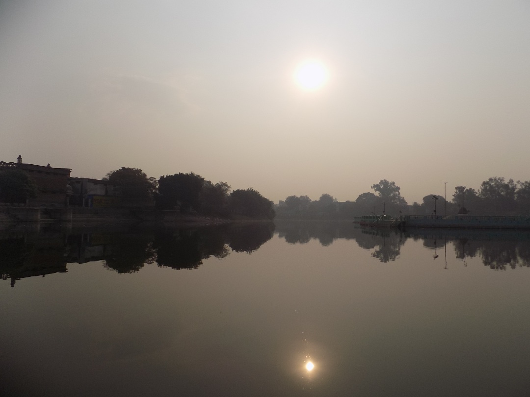 A Sunrise View in Mahil Talab Captured by Divyansh Pratap Singh